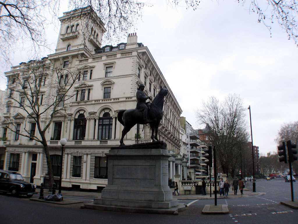 Statue of Robert Napier, 1st Baron Napier of Magdala in Queen's Gate, Kensington, London SW7